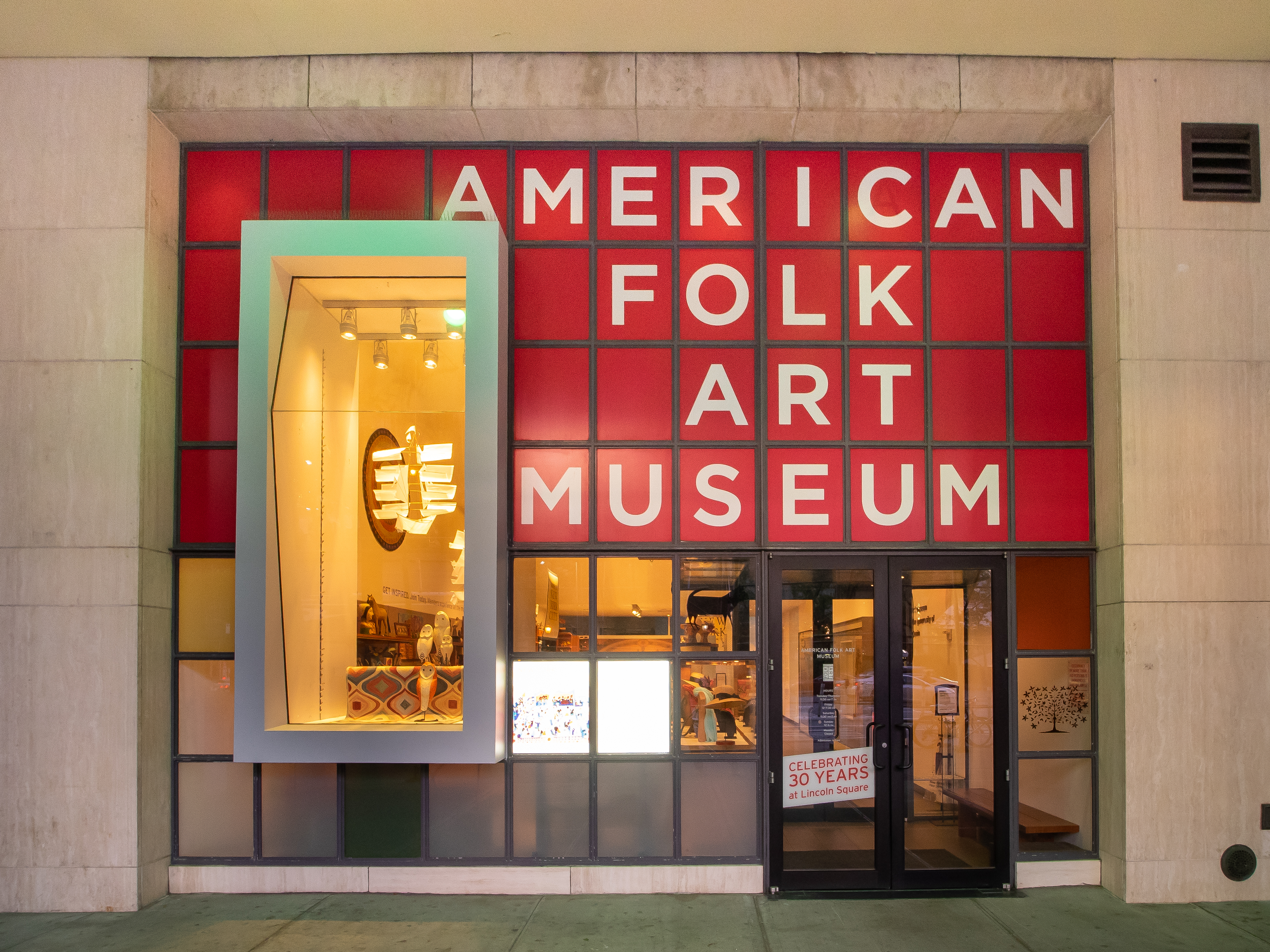 American Folk Art Museum's Enterance